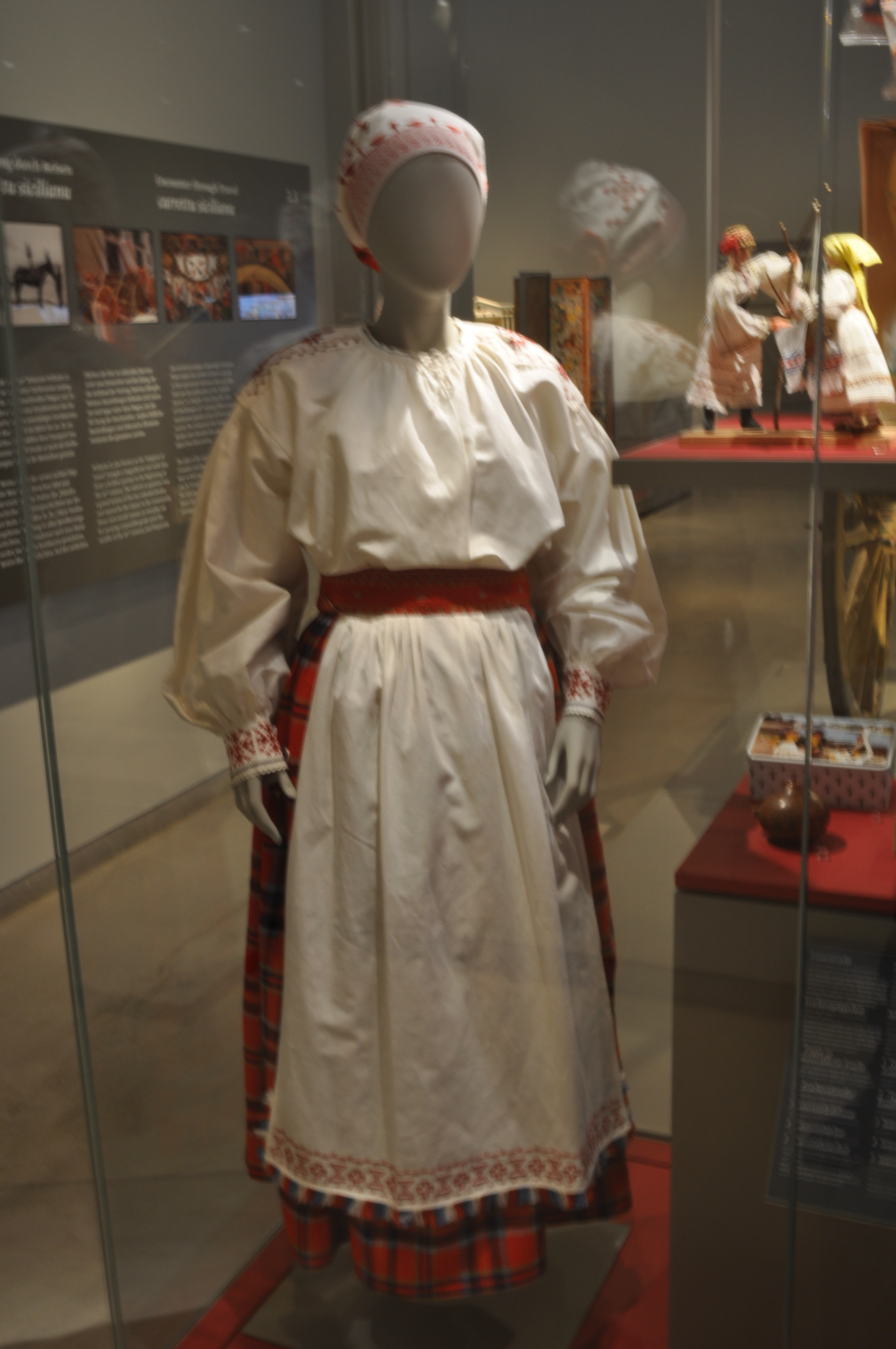 GLAM-Event at MEK (Museum Europäischer Kulturen, 2017)